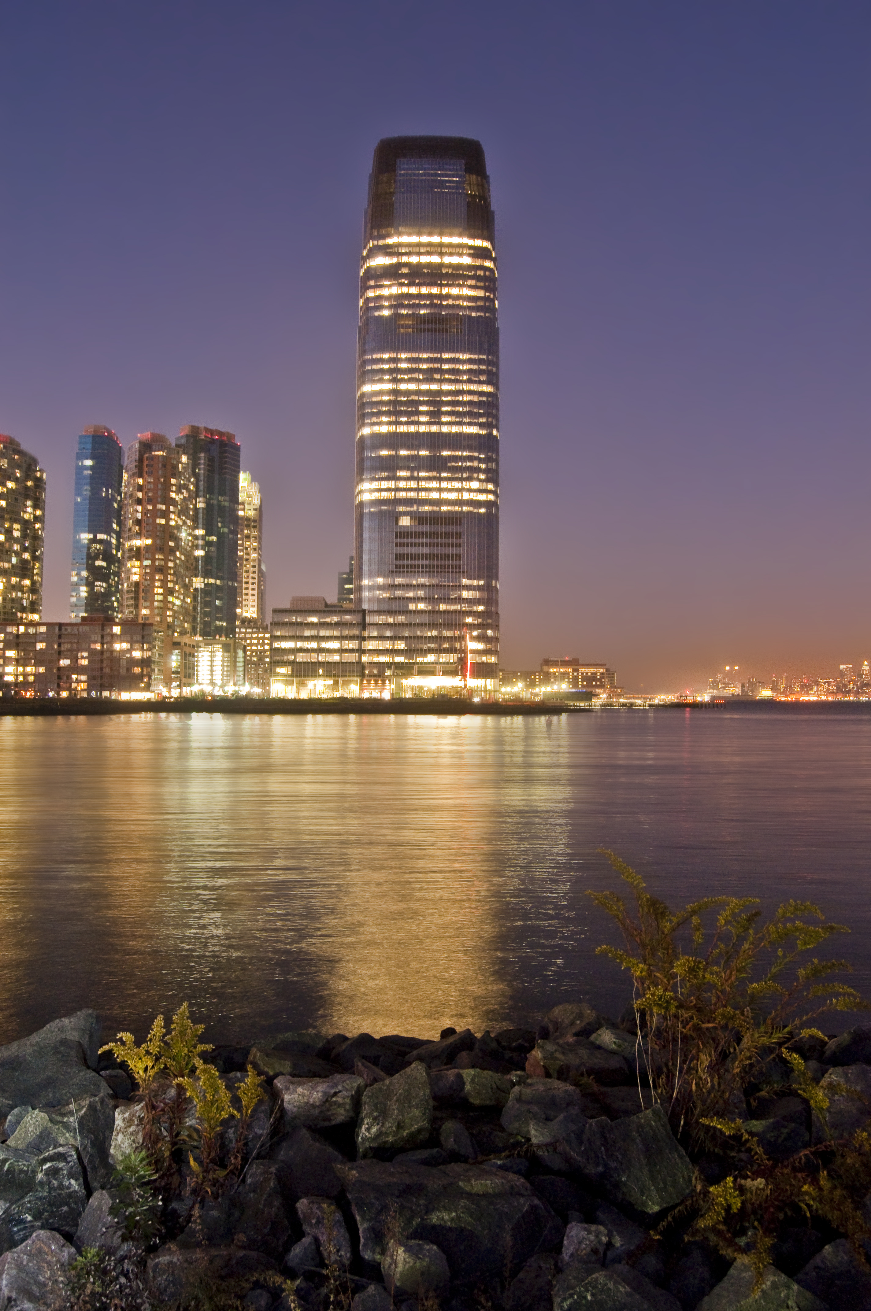 Liberty State Park, NJ